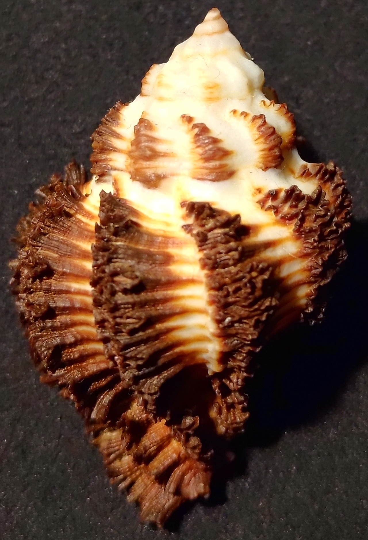 Hexaplex Stainforthi Back